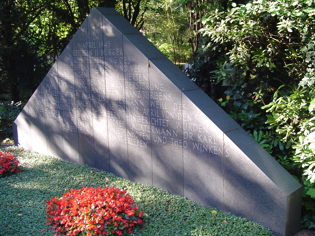 Nordfriedhof cemetery, Düsseldorf, Germany